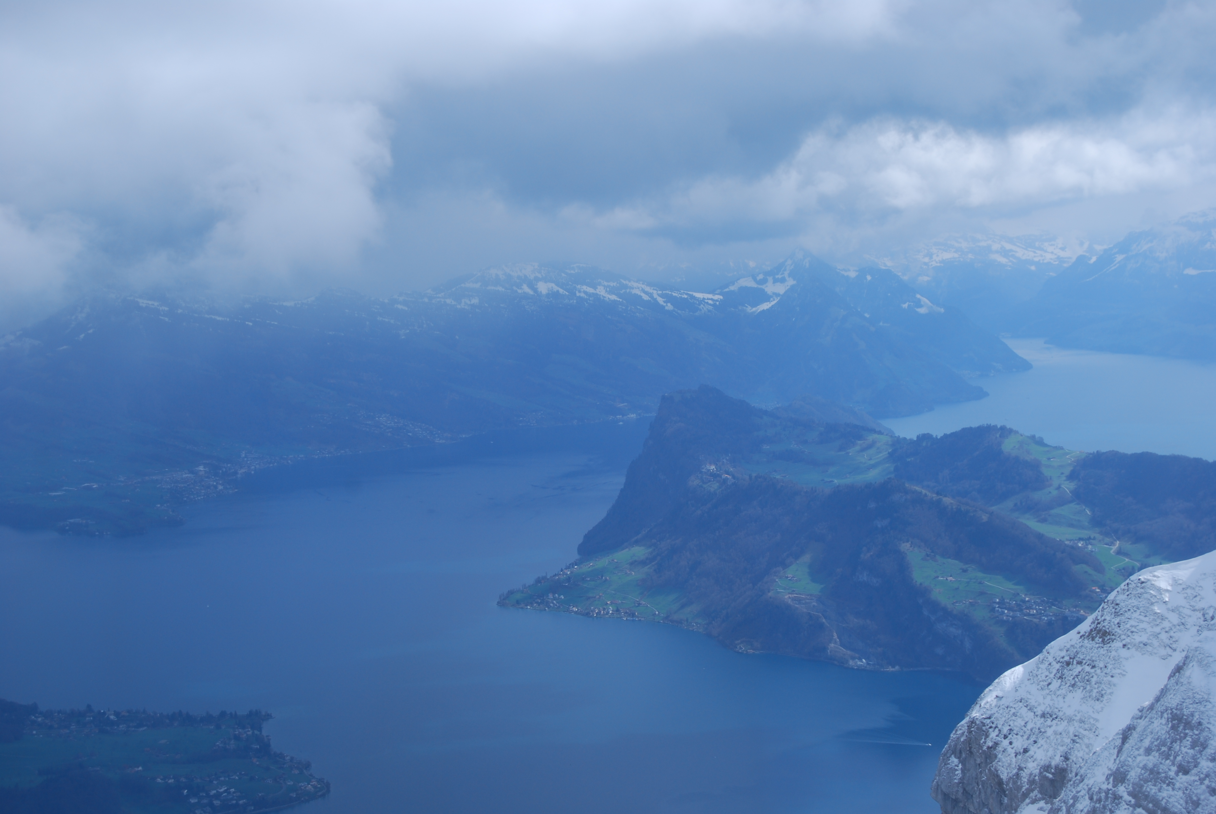 View to the Lake of Lucerne and Bürgenstock from the Pilatus aerial lift, Switzerland.